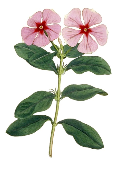 Madagascar Periwinkle or Vinca (Catharanthus roseus) from William Curtis' Botanical Magazine, ca. 1787-1807. Image from the National Agricultural Library, ARS, USDA